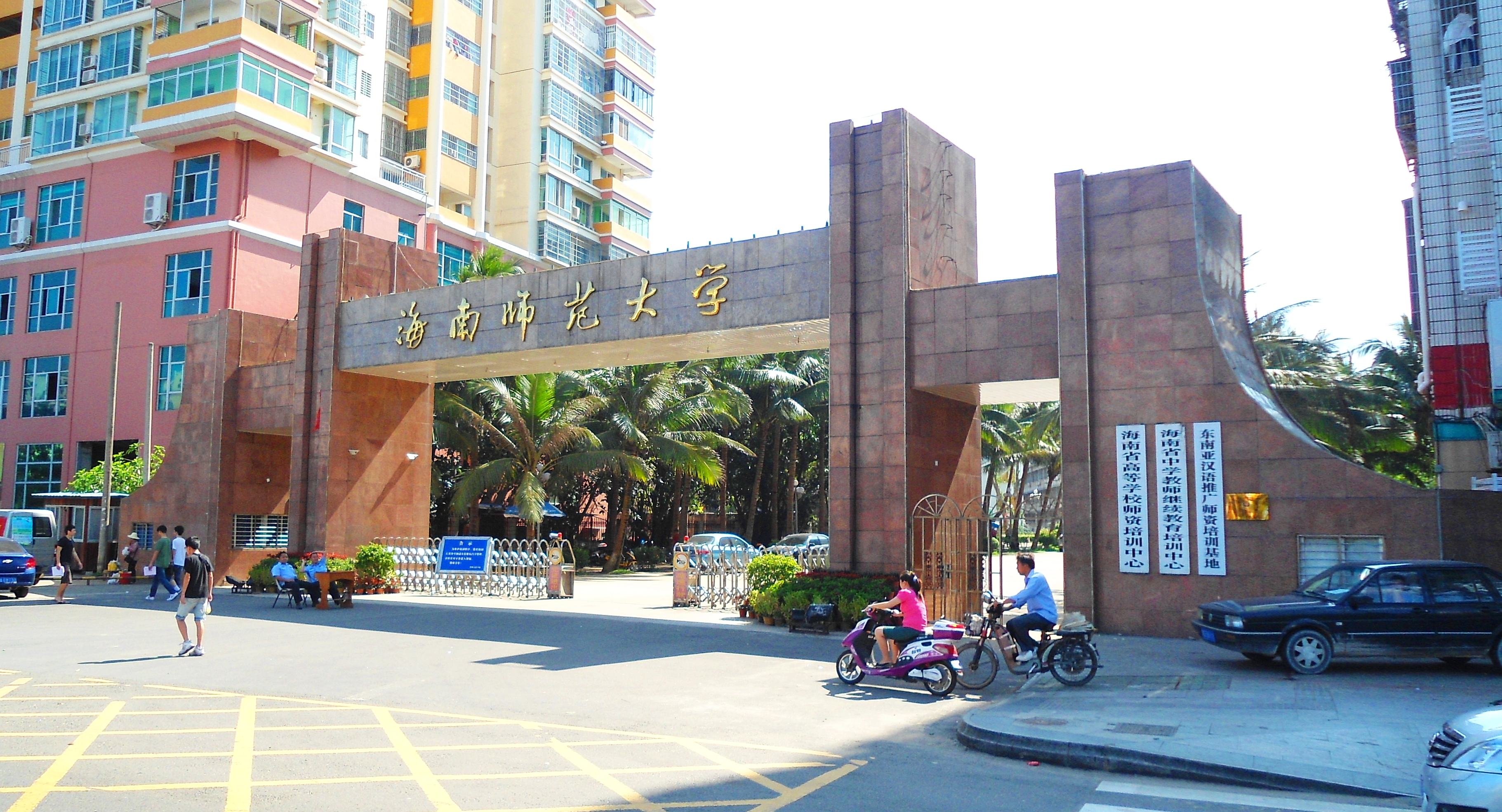 Hainan Normal University (海南师范大学; pinyin: Hǎinán Shīfàn Dàxué), Haikou Campus, Haikou City, Hainan Province, China.